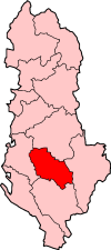 Locator map for Berat County within Albania.